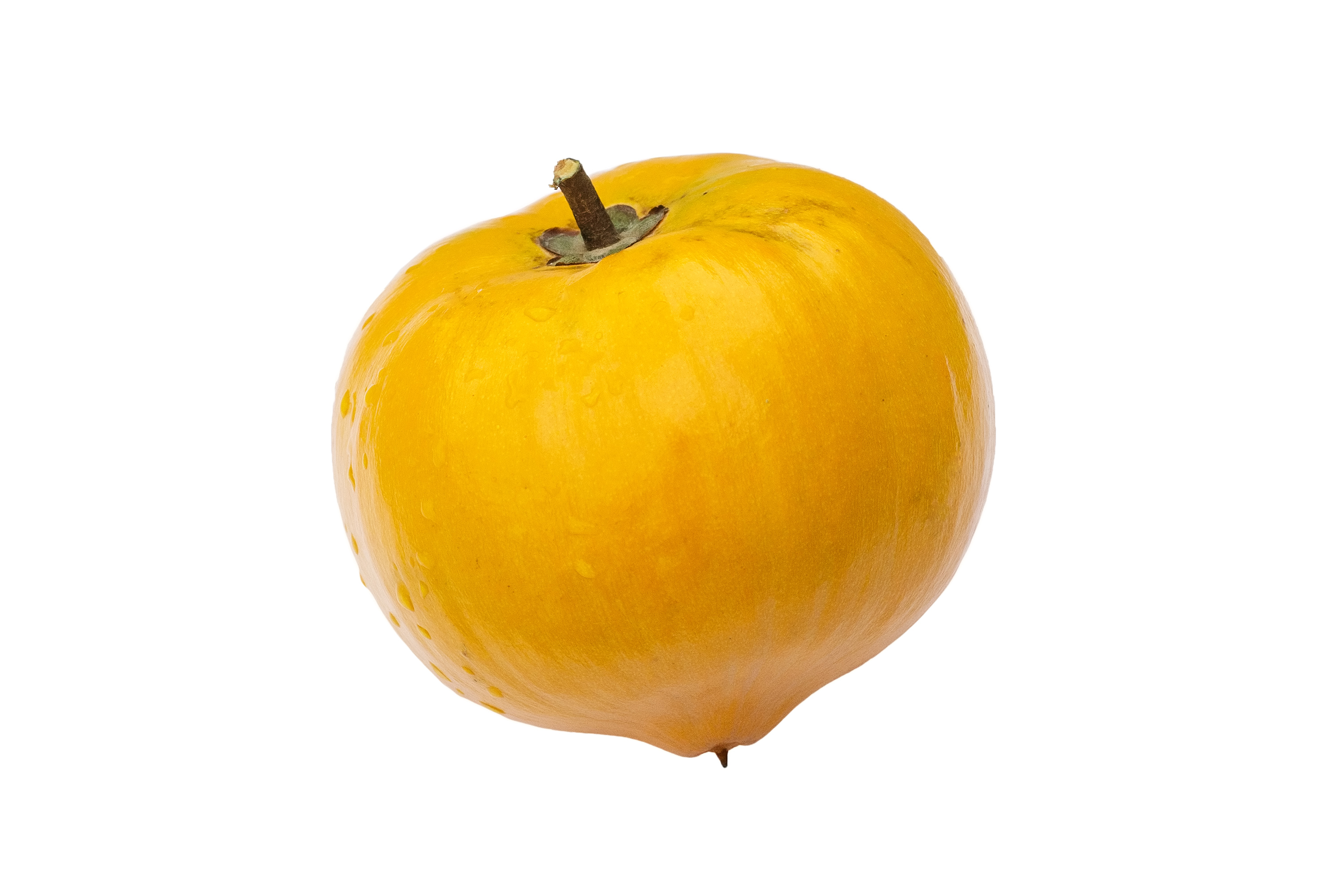 Egg fruit